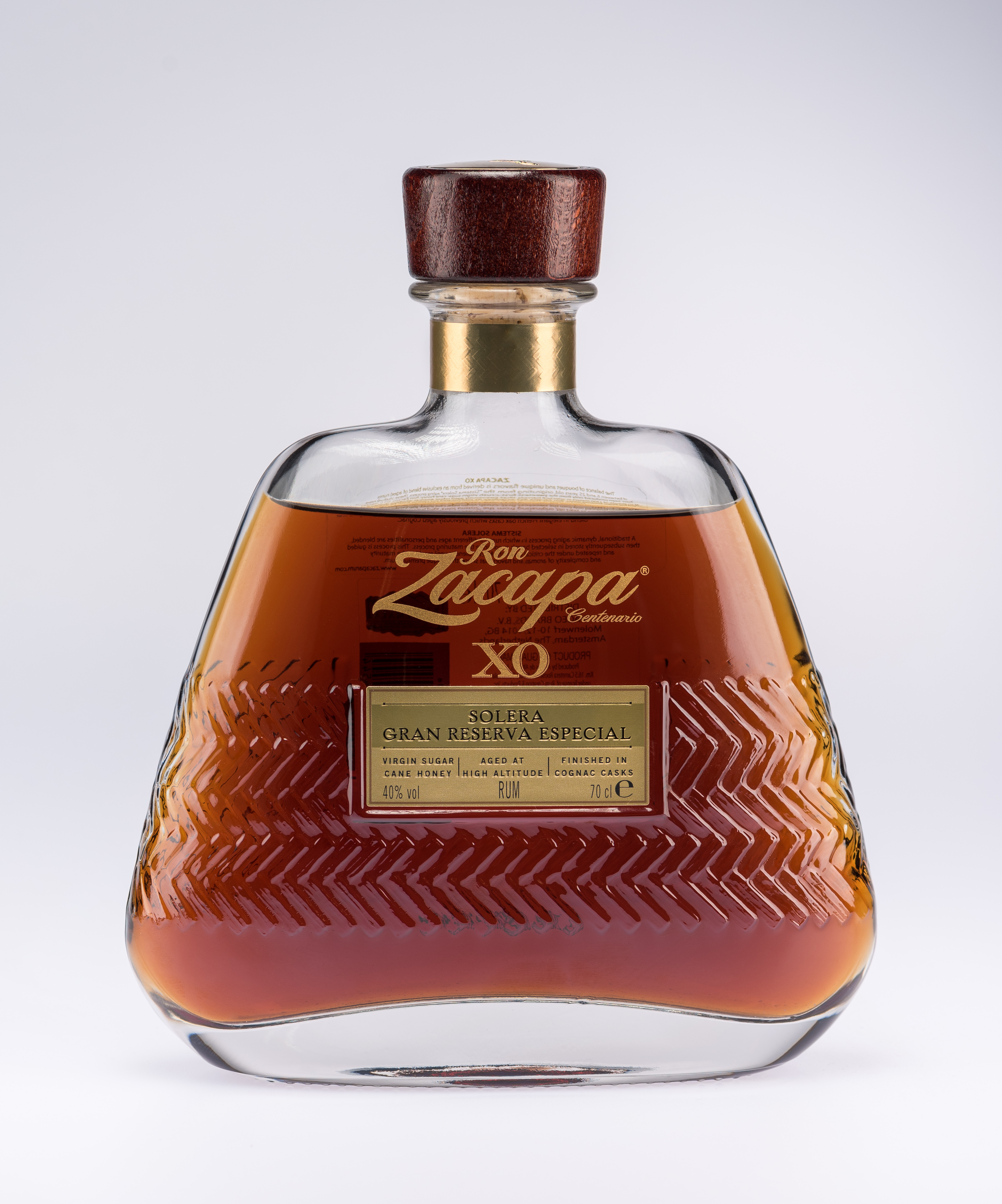 Bottle of Ron Zacapa XO